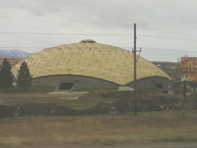 Bruce Hoffman Golden Dome(sports arena) at Sheridan College, Sheridan, Wyoming.